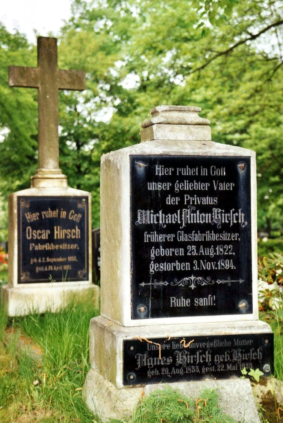 Pirna: gravestones of Oscar Hirsch (1853-1885) and Gottlob Michael Anton Hirsch (1822-1894), two members of the Hirsch family glassblowers, founder of two glas factorys in Pirna.